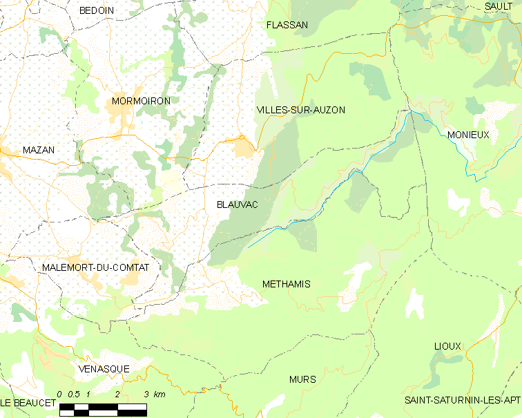 Map of French municipality Blauvac